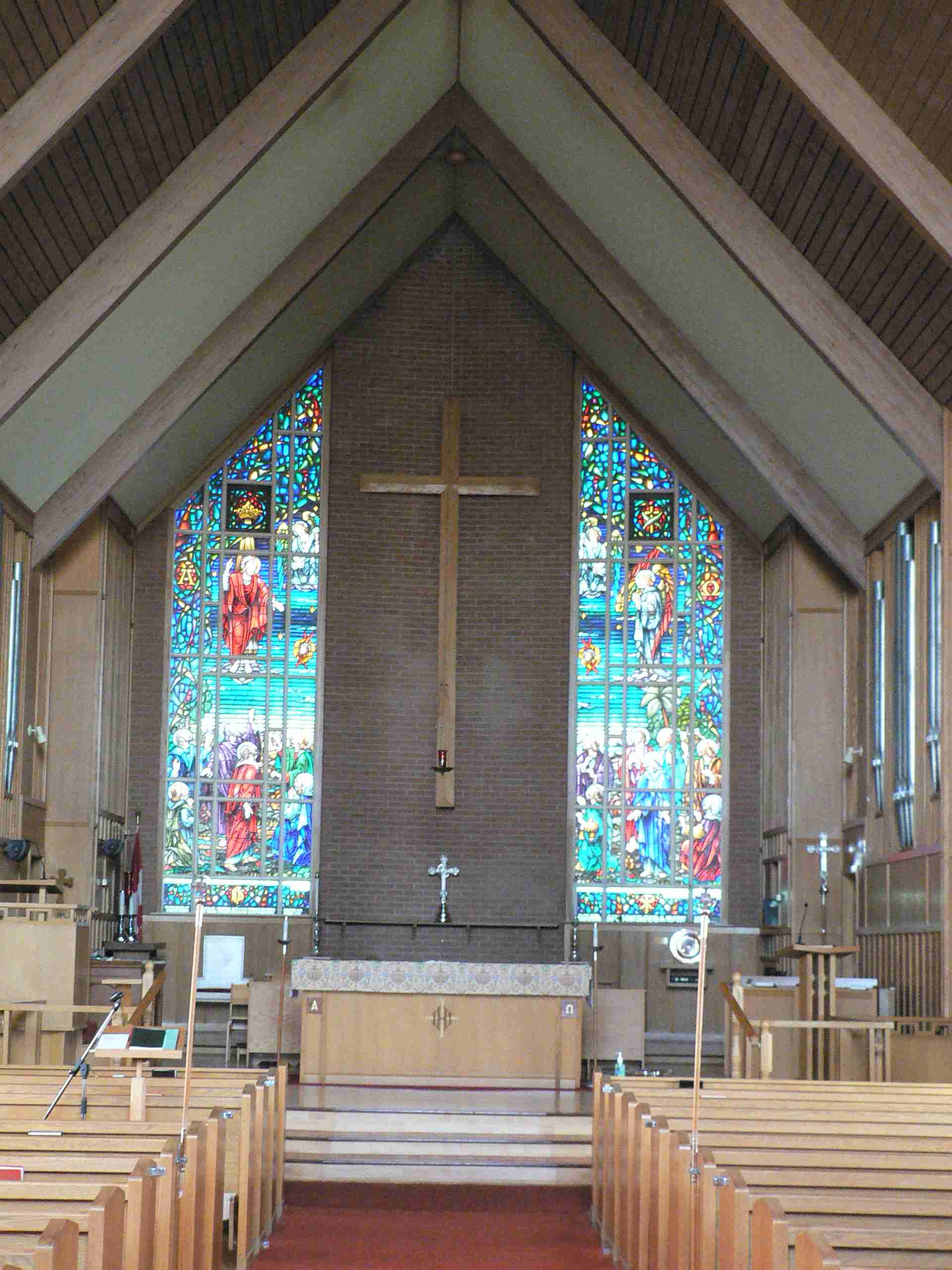 All Saints, King City Nicola Skiner, taken by self, Feb 2007